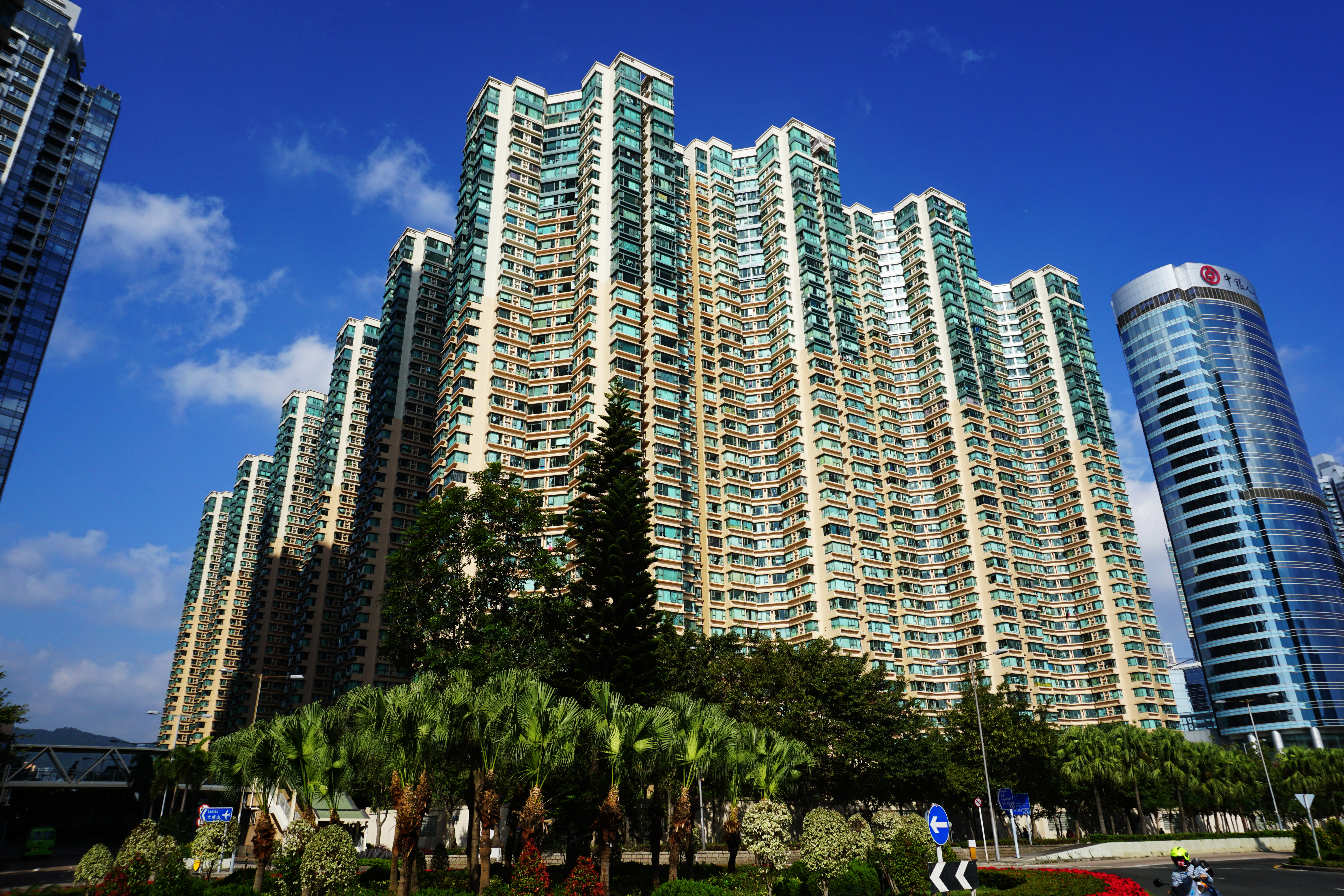 Island Harbourview in Tai Kok Tsui, Hong Kong.